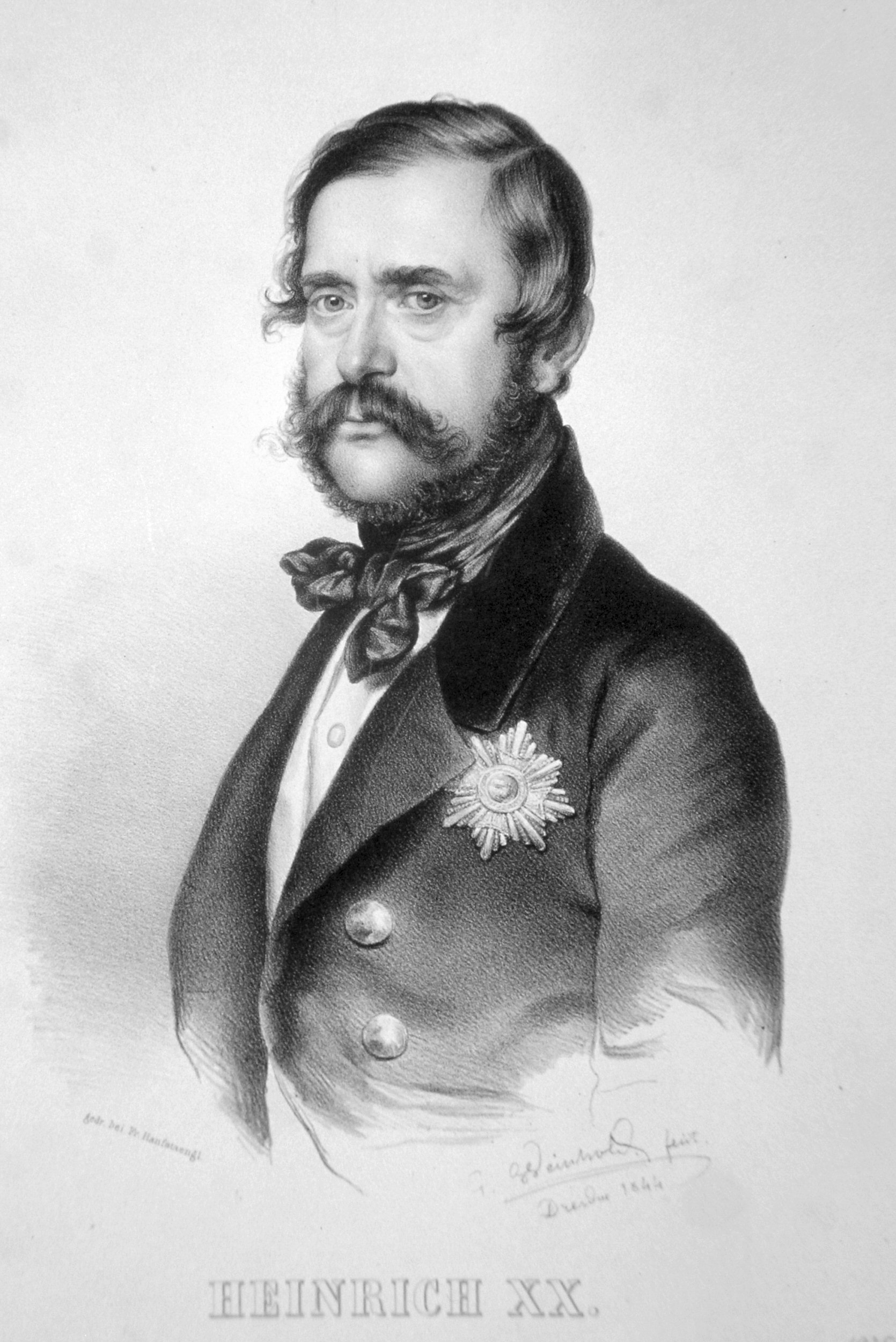 Heinrich XX. Prince Reuß of Greiz Lithograph by G. Weinhold, 1841